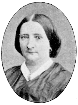 Image scanned from the book "Svenskt Porträttgalleri XX - Arkitekter, Bildhuggare, Målare m.fl. " ("Swedish Portrait Gallery XX - Architects, Sculptors, Painters, ") published 1901